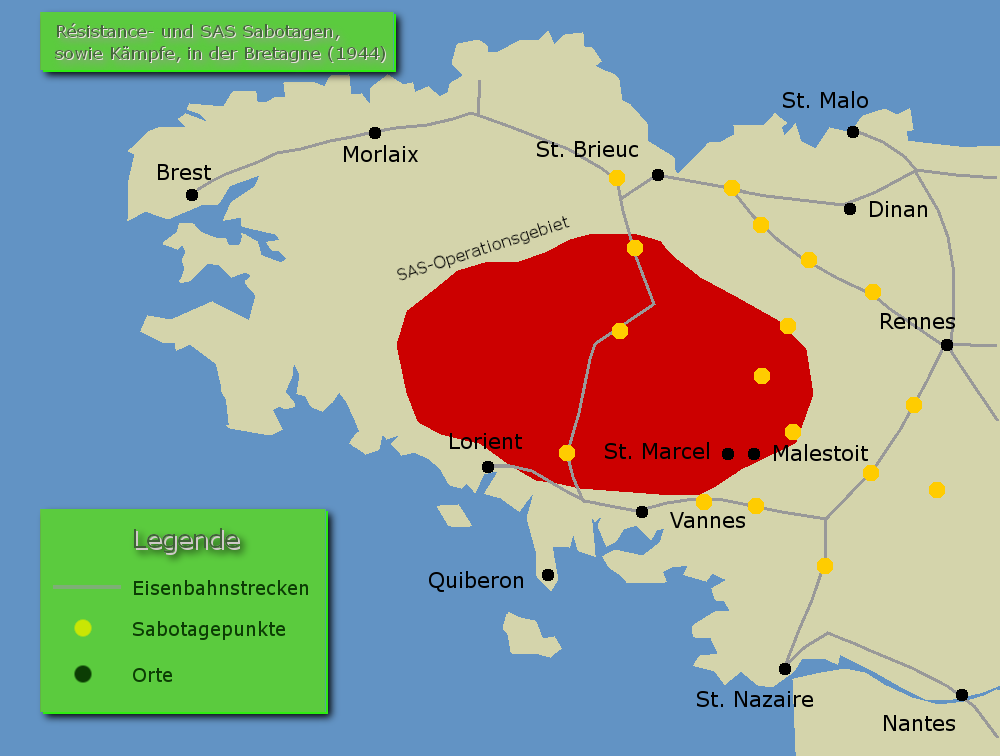 Description: Operations of SAS and Résistance in Brittany, 1944 Source: Own Work (John N. (@ me))